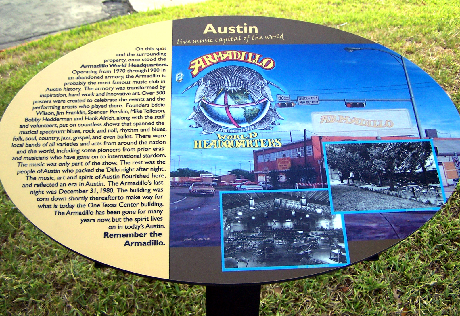 Commemorative plaque in the parking lot of One Texas Center, Barton Springs Rd and South 1st St, Austin, Texas, United States at the site where the Armadillo World Headquarters once stood. The plaque was dedicated on August 19, 2006.